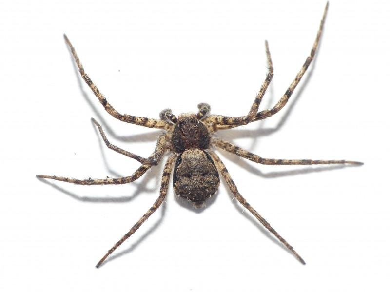 Philodromus margaritatus (Philodromidae), Wageningen - Regentesselaan, the Netherlands